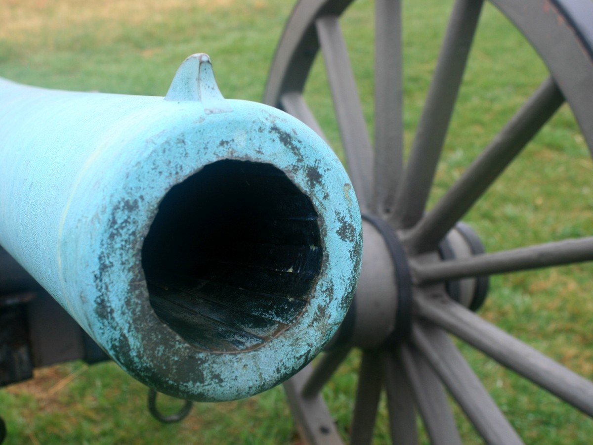 Manassas, 13-pounder James Rifled Gun. There appears to be 10 rifling grooves which makes this gun a Type 2 Series 2, 3 or 4.